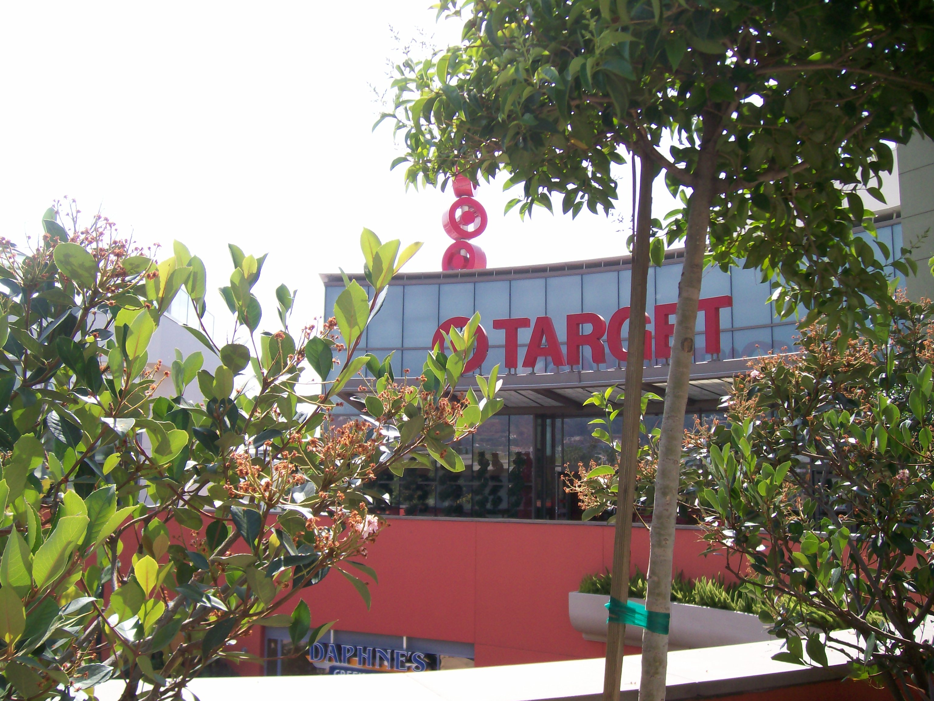 Picture taken approaching the Target store in West Hollywood, California.